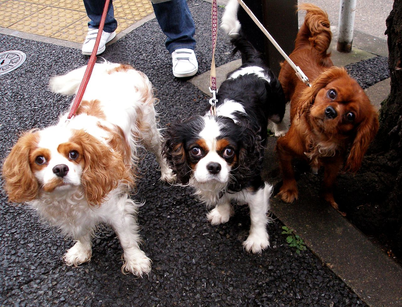 Three Cavalier King Charles Spaniels. Blenheim, tricolour and ruby coloured (respectively).